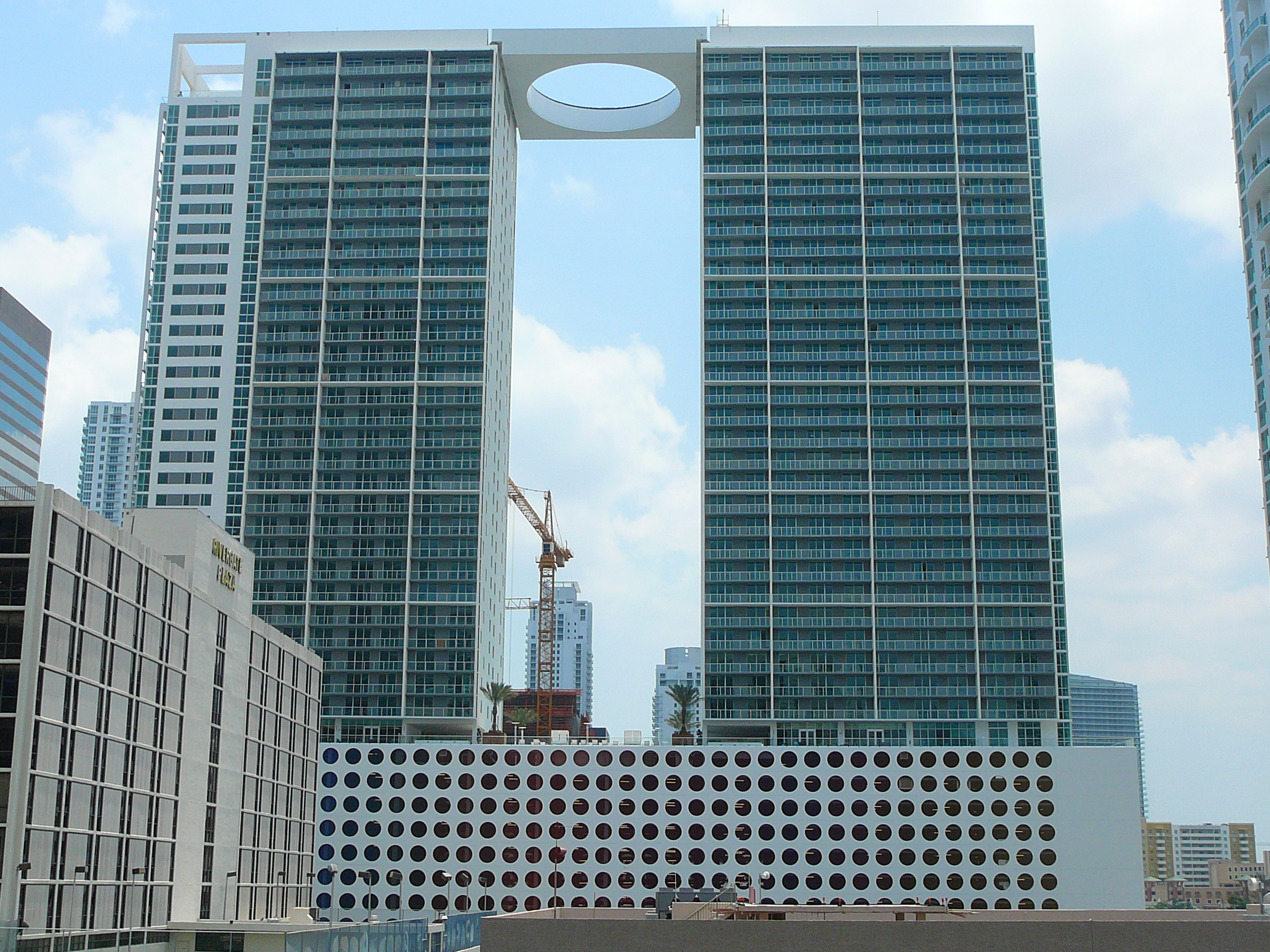 Digital photo taken by Marc Averette. The topped-out en:500 Brickell tower in downtown Miami, north view 5/14/2008